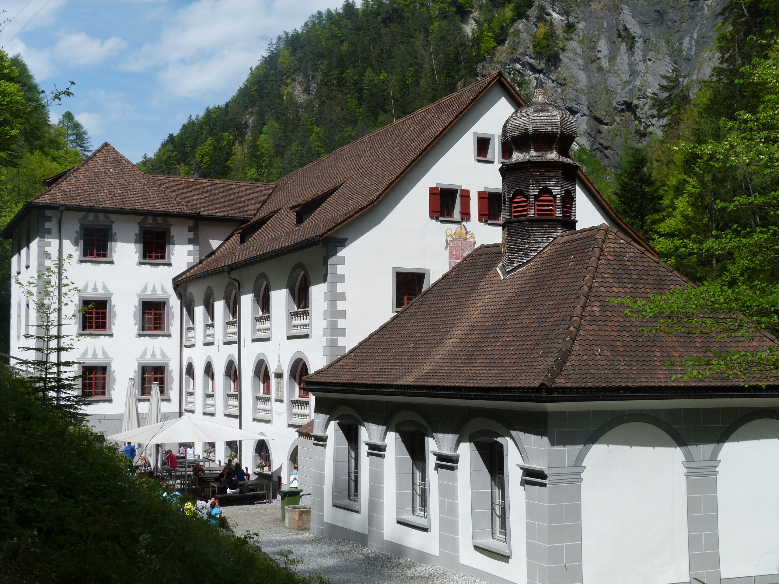 The former bath house of Bad Pfäfers in the gorge of the Tamina river in St. Gallen canton/Switzerland